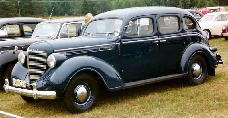 Chrysler Royal Series C-18 4-Door Sedan 1938